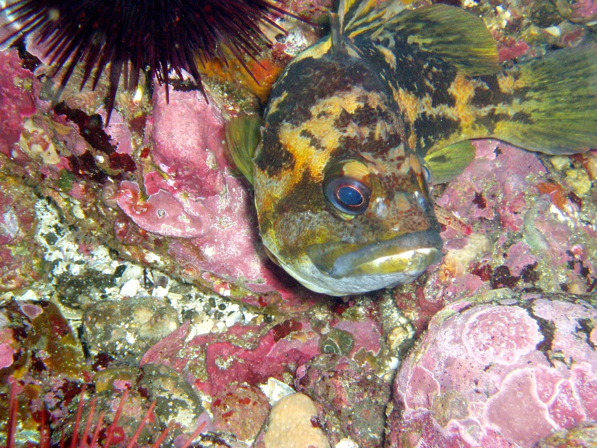 Black and yellow rockfish (Sebastes chrysomelas). California, Channel Islands NMS.